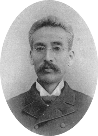 Late Mr. Tokusaburō Kiriyama.